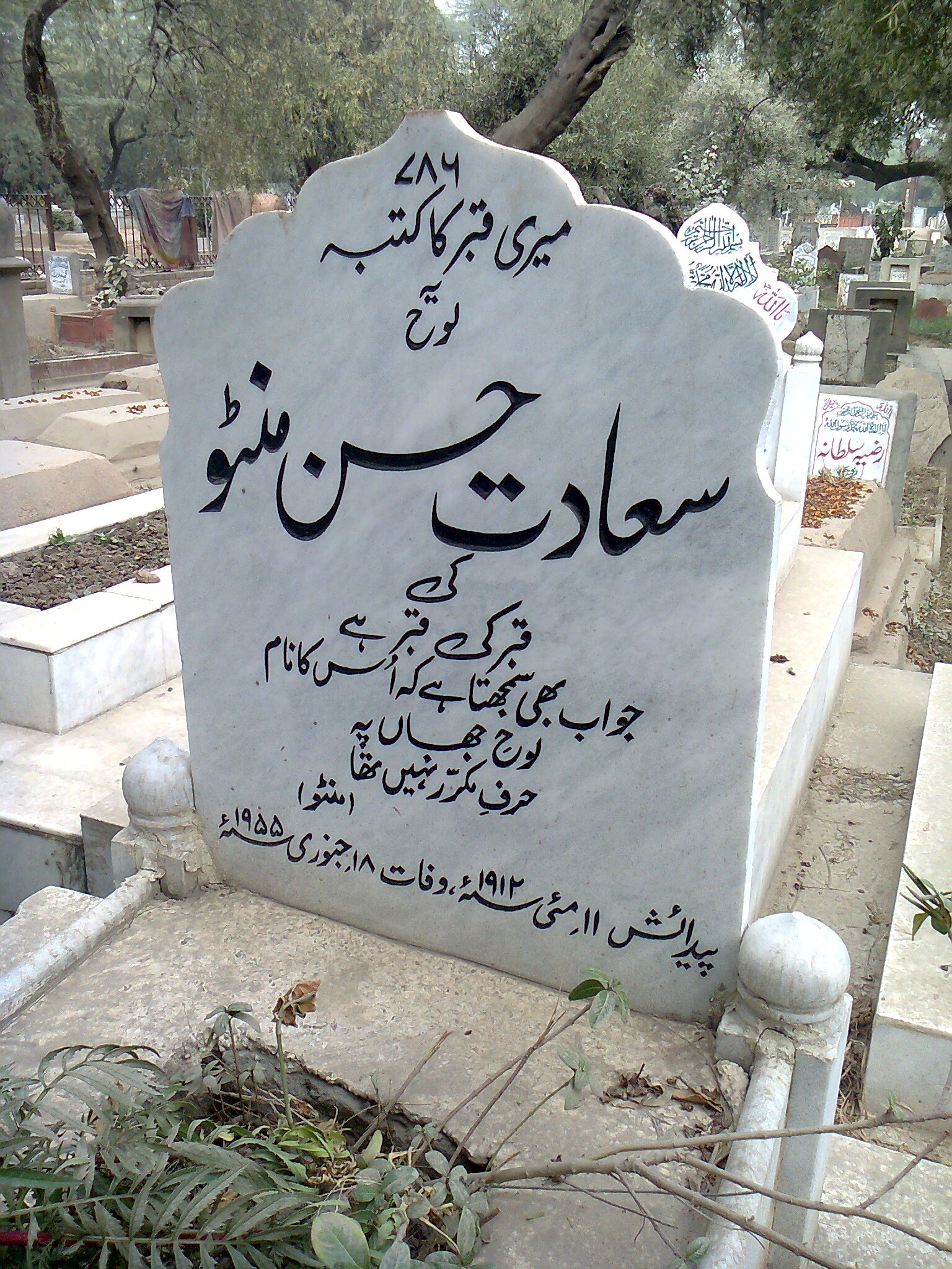 Manto had composed his own epitaph about six months prior to his death that goes like: "Here lies Sa'adat Hassan Manto and with him lie buried all the secrets and mysteries of the art of storytelling. Under tons of earth he rests, still wondering who among the two is the greater story writer: God or he." A strong dialogue suiting the characteristic cynical style with which Manto composed his short stories on the dynamics of the society we live in. For personal reasons, the family replaced the gravestone, with the one pictured above. The present inscription, derived from Ghalib's couplet, is still crafted with some cynicism with the repetition of the word grave. The gravestone reads: My Gravestone This epitaph belongs to the grave of Sa'adat Hasan Manto's grave who still believes that his name was not just another inscription on the tablet of life Born May 11, 1912 : Died Jan 18, 1955 Buried in Miani Sahab Graveyard, Lahore, Manto still inspires the spirit of realism, innovation and struggle in Urdu Literature.